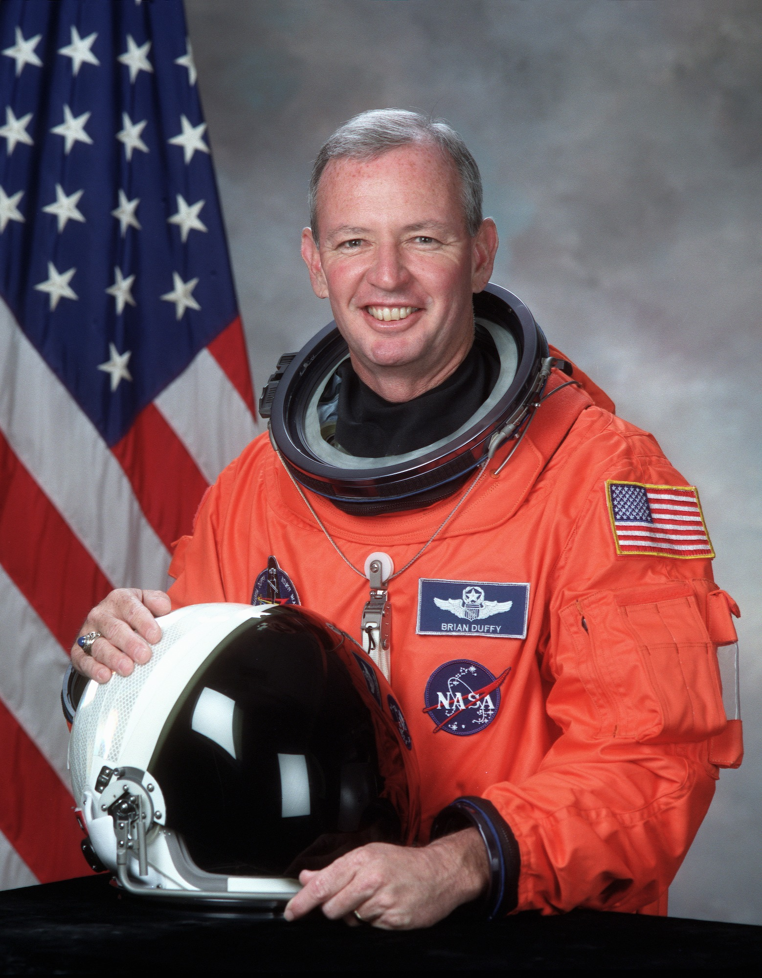 portrait astronaut Brian Duffy